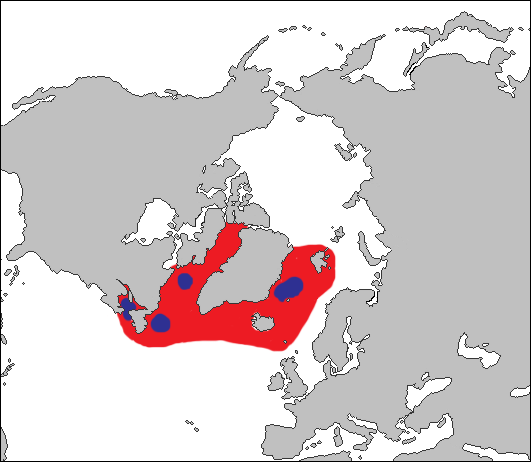 Distibution of Cystophora cristata, the blue colour indicates breeding grounds and the red habitat during the rest of the year